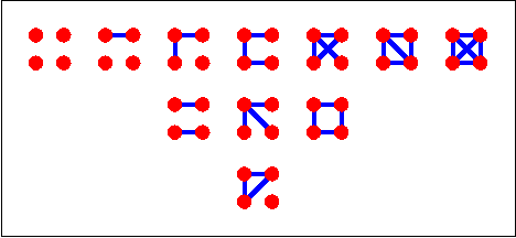 This file represents all nonisomorphic simple graphs on four vertices.